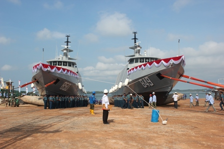 Pari class patrol boat of the Indonesian Navy